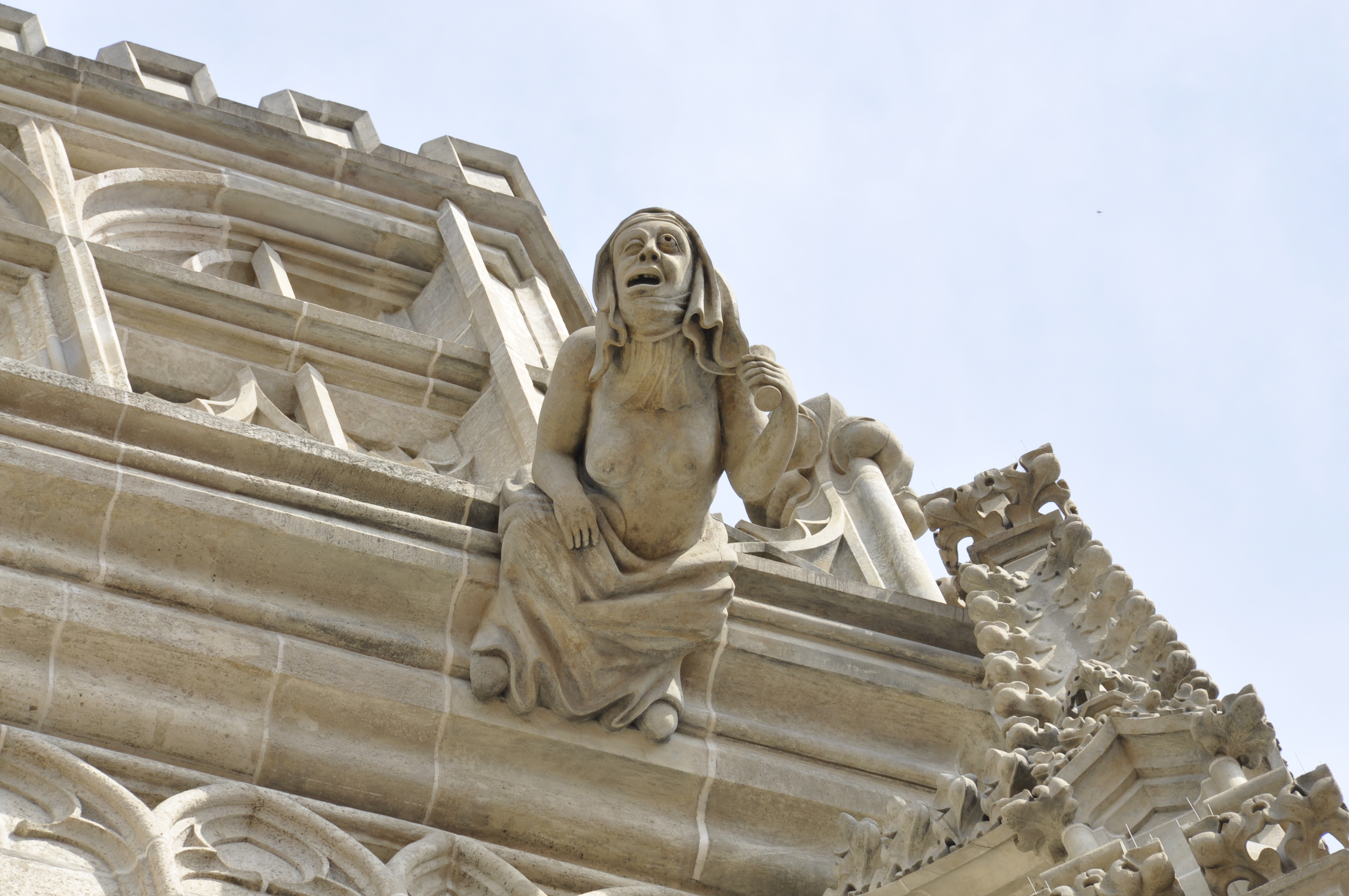 St.Elisabeth Cathedral,Košice,Slovakia,Gargoyle of a drunk woman